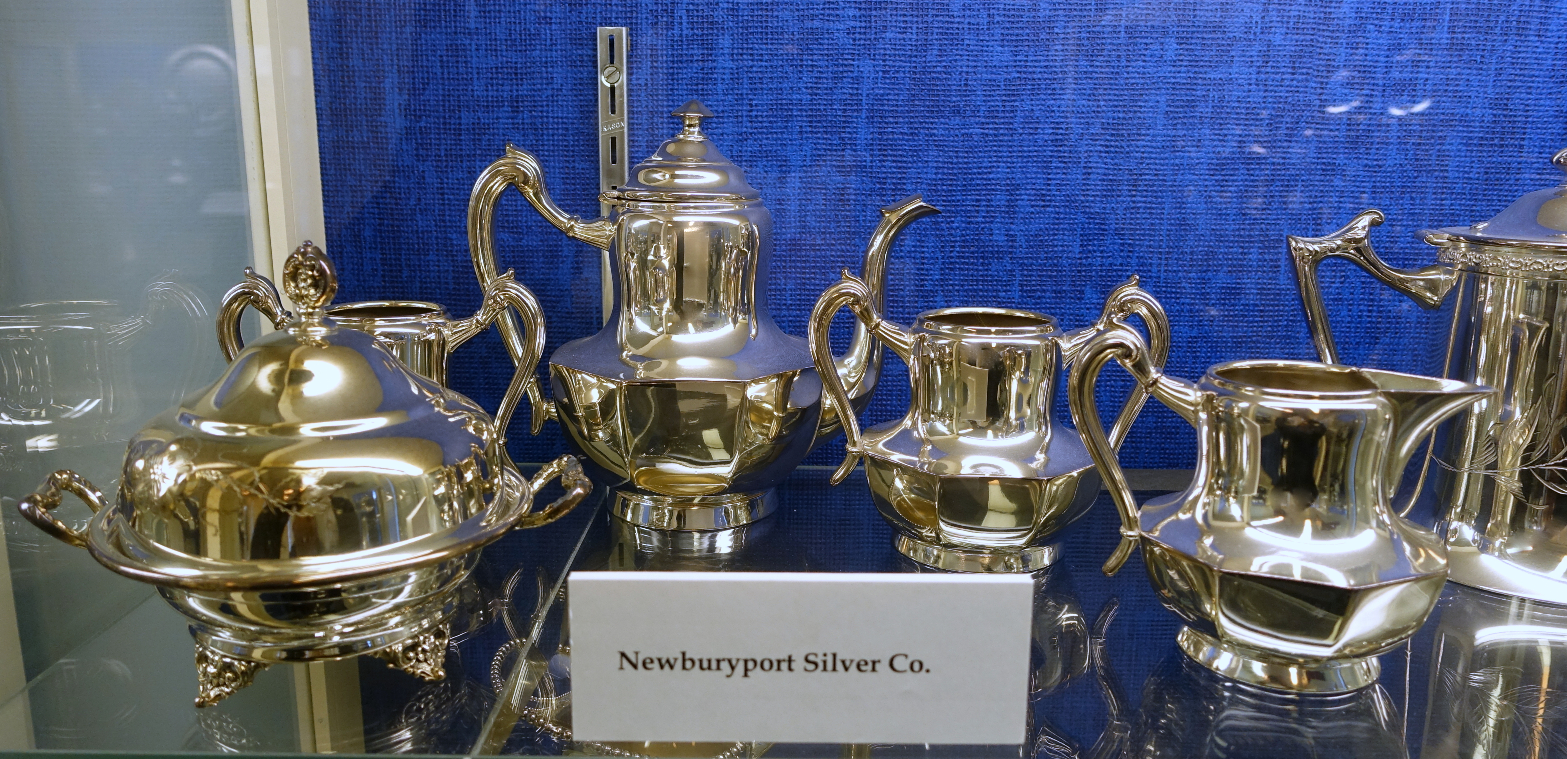 Exhibit in the Old Colony History Museum - Taunton, Massachusetts, USA.